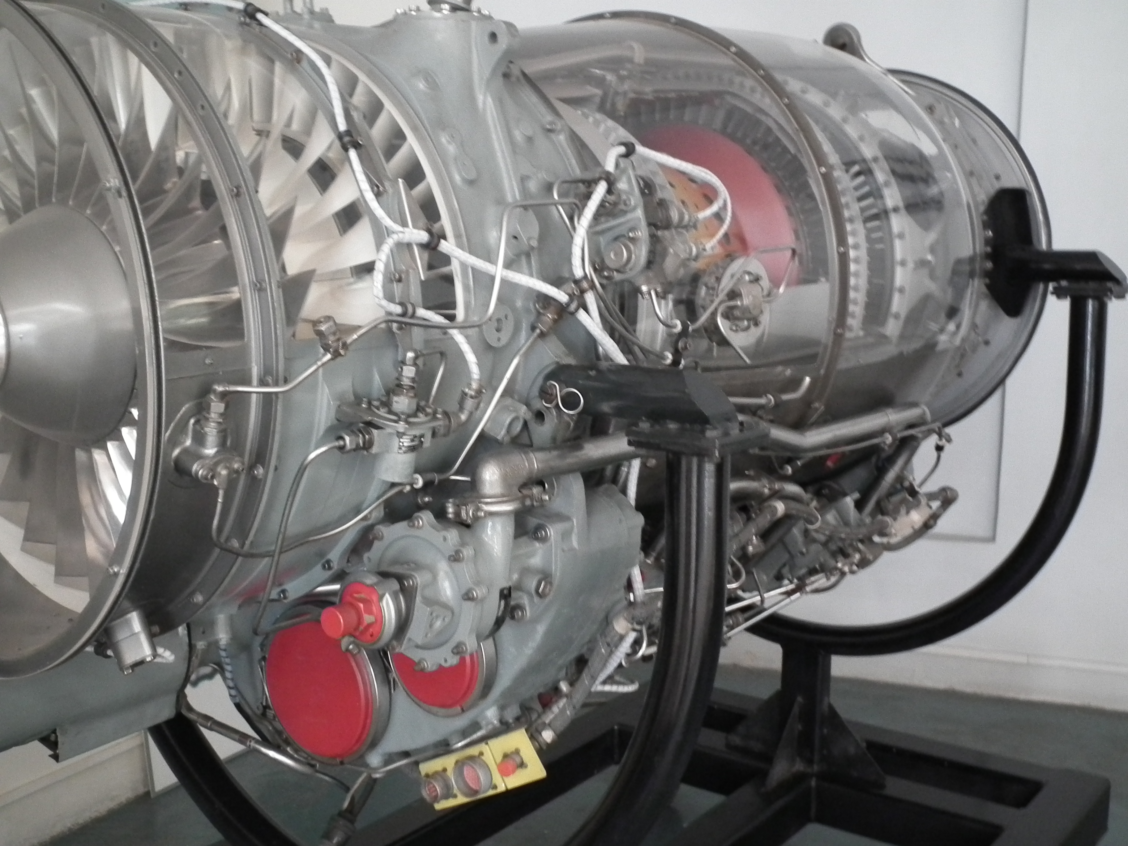 Rolls-Royce Turbomeca Adour Mk811 displayed at HAL Museum.